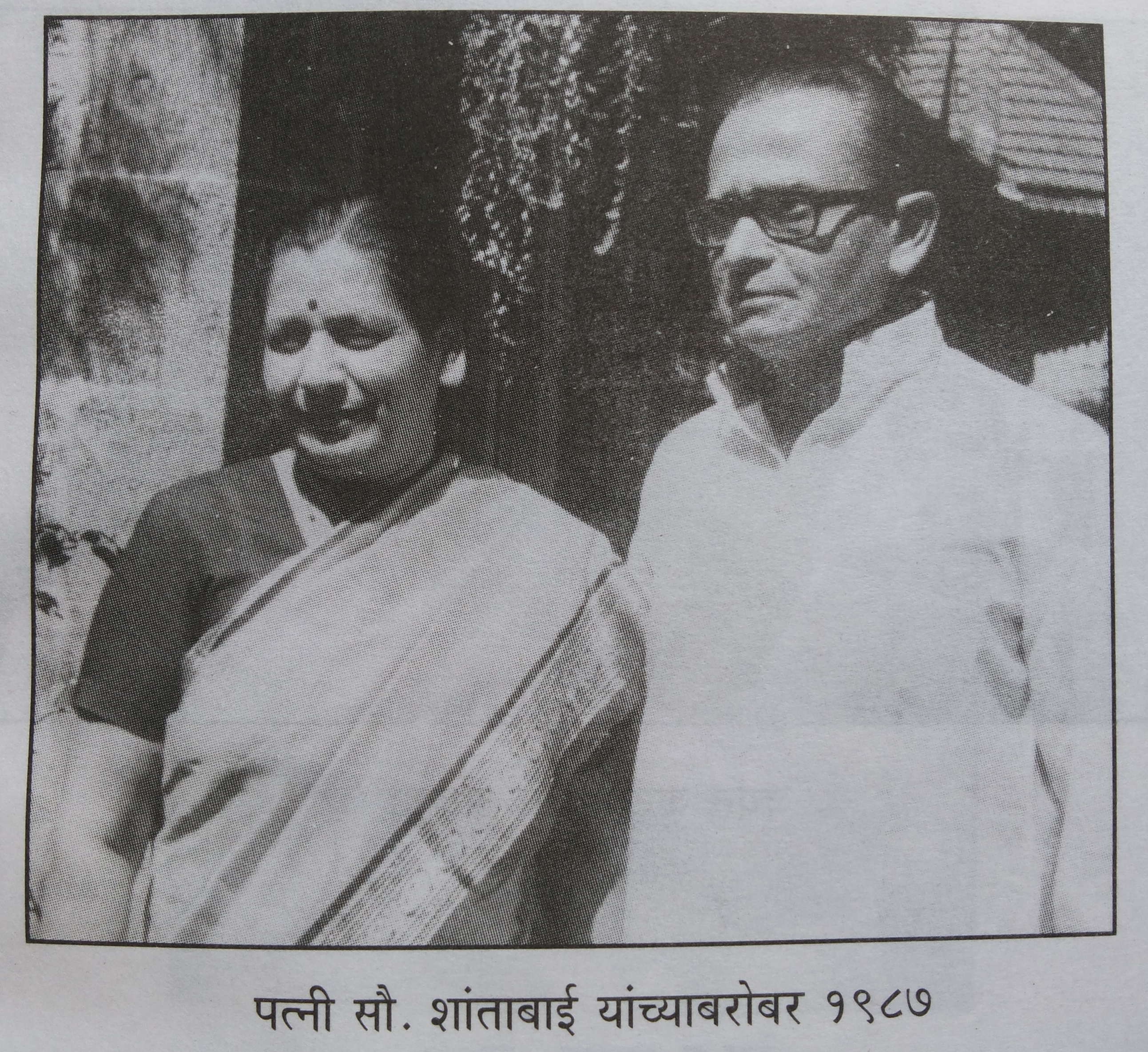 पत्नी सौ. शांताबाई यांच्या बरोबर प्रा. कावळे १९८७